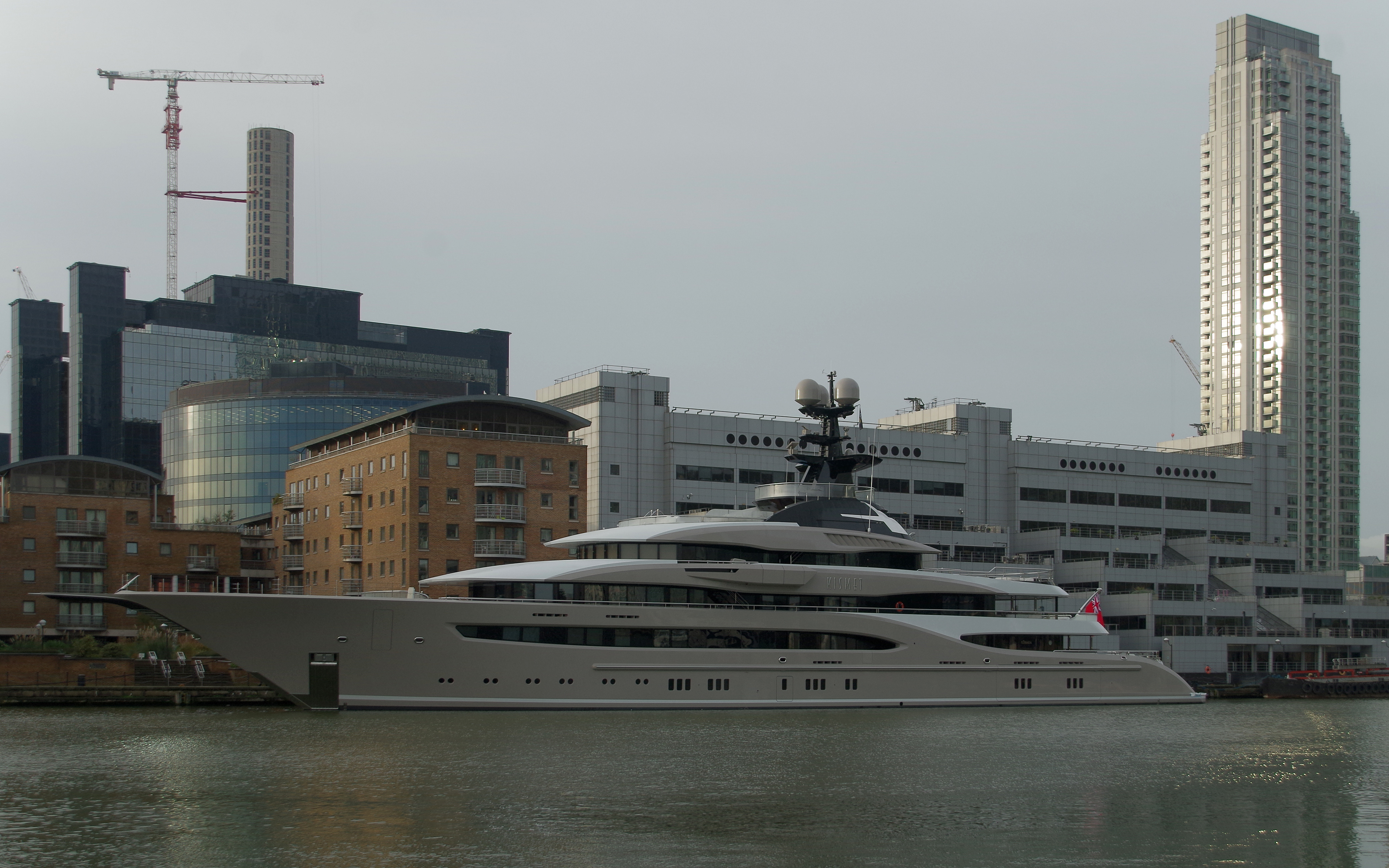 The pleasure yacht Kismet sits berthed on the City Canal in Canary Wharf. She is truly the most beautiful ship I've ever seen, and really cheap at only €1,200,000 per week to rent!